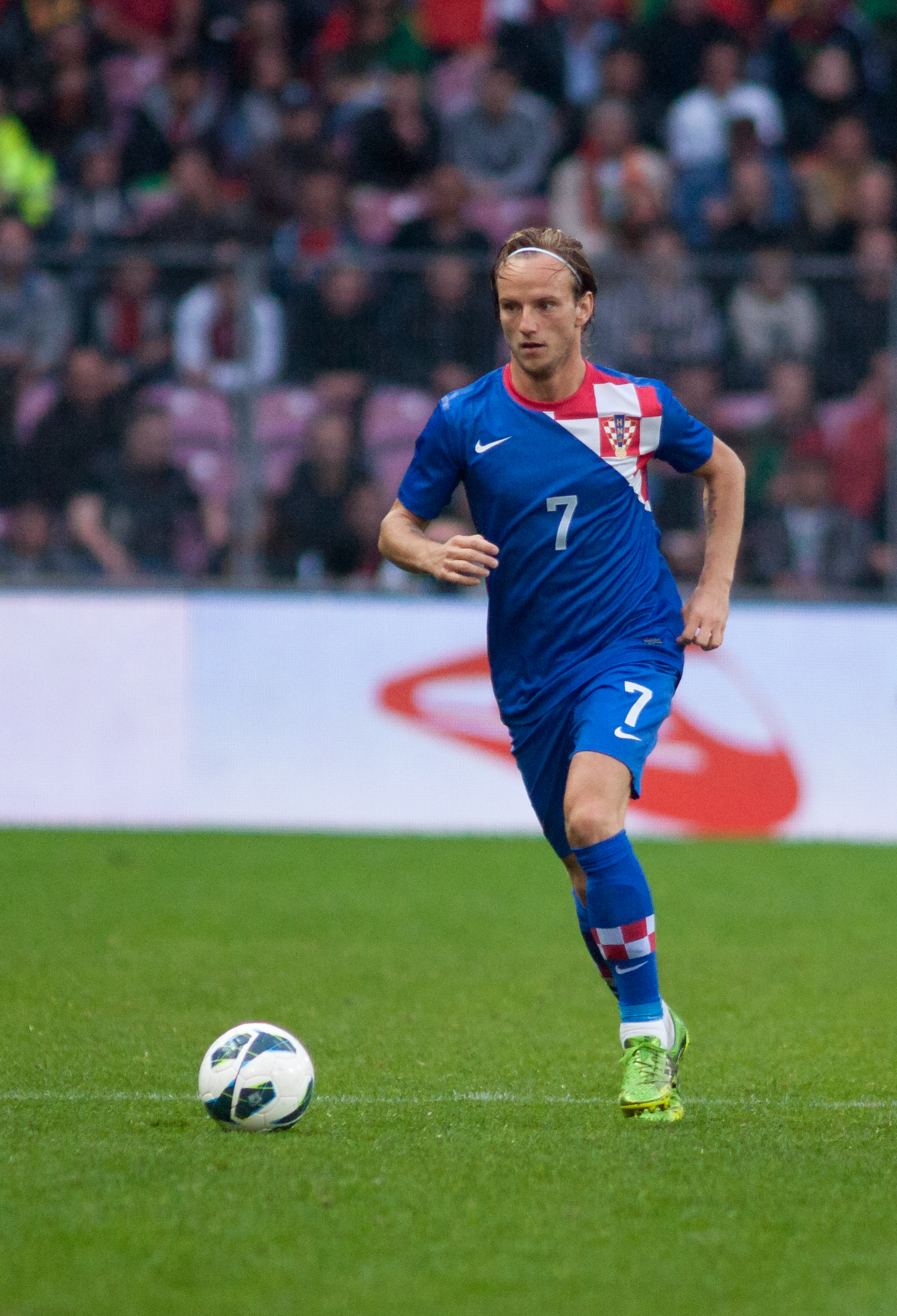 Croatia vs. Portugal, 10th June 2013